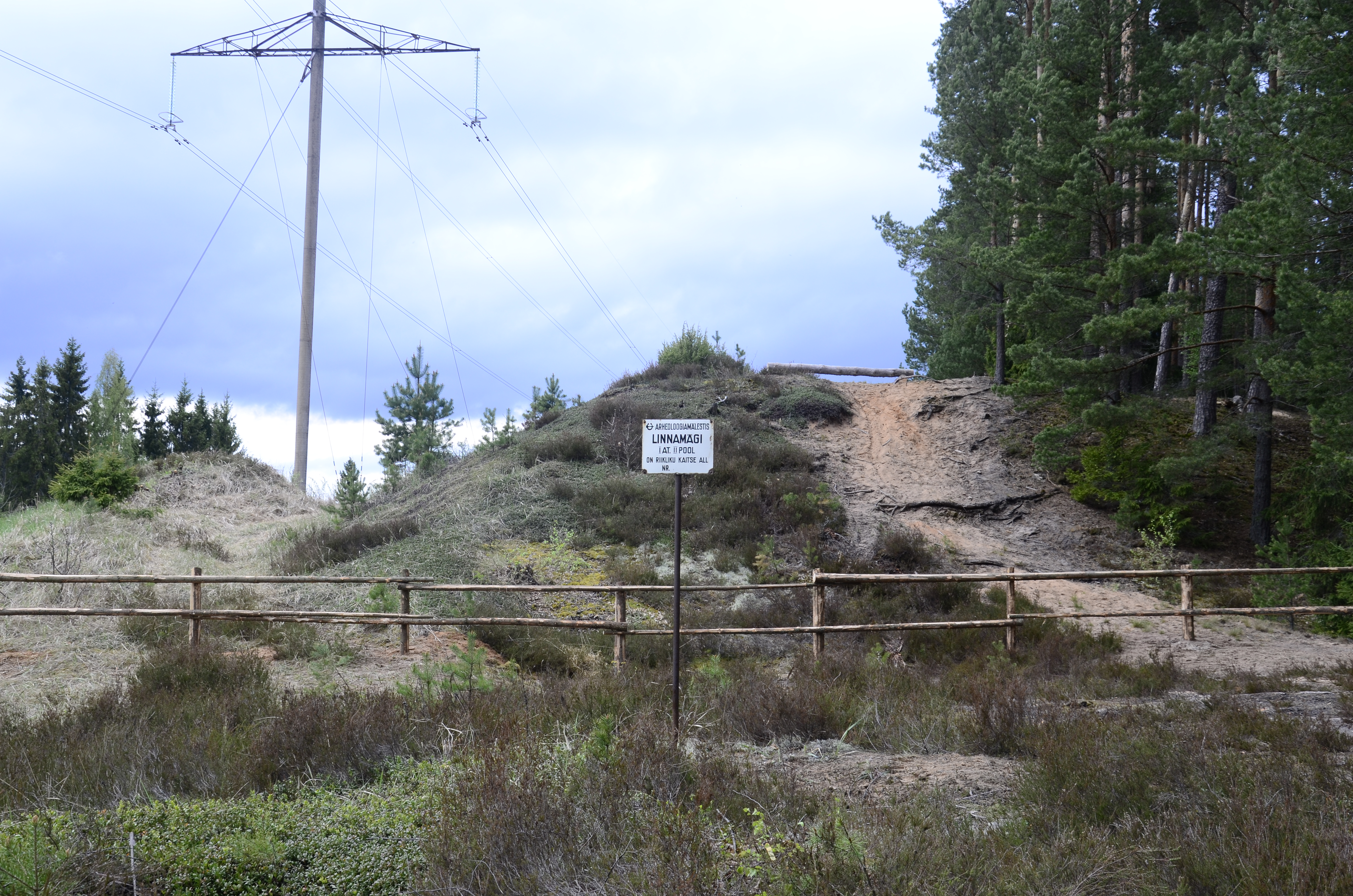 Kauksi Leerimägi hill fort in Põlva parish, one of the hill forts of south-east Estonia, after a fence was built to prevent people from further damaging the high rampart of the prehistoric hill fort.